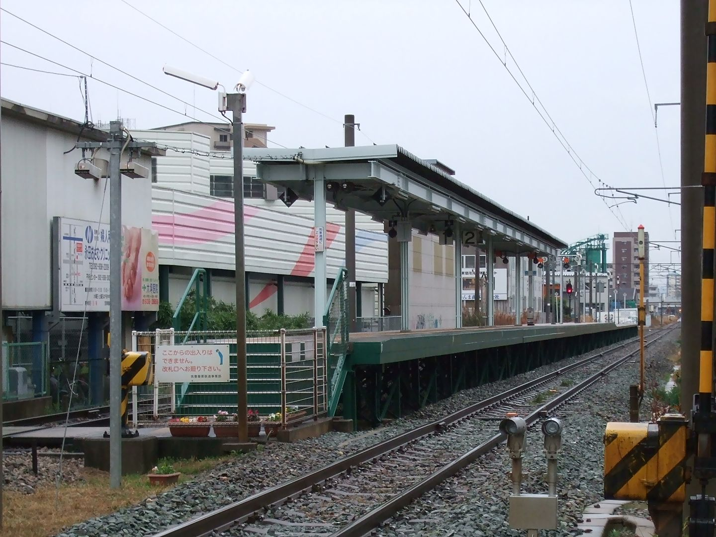 Yusu Station, Sasaguri Line, Kyushu Railway Company.